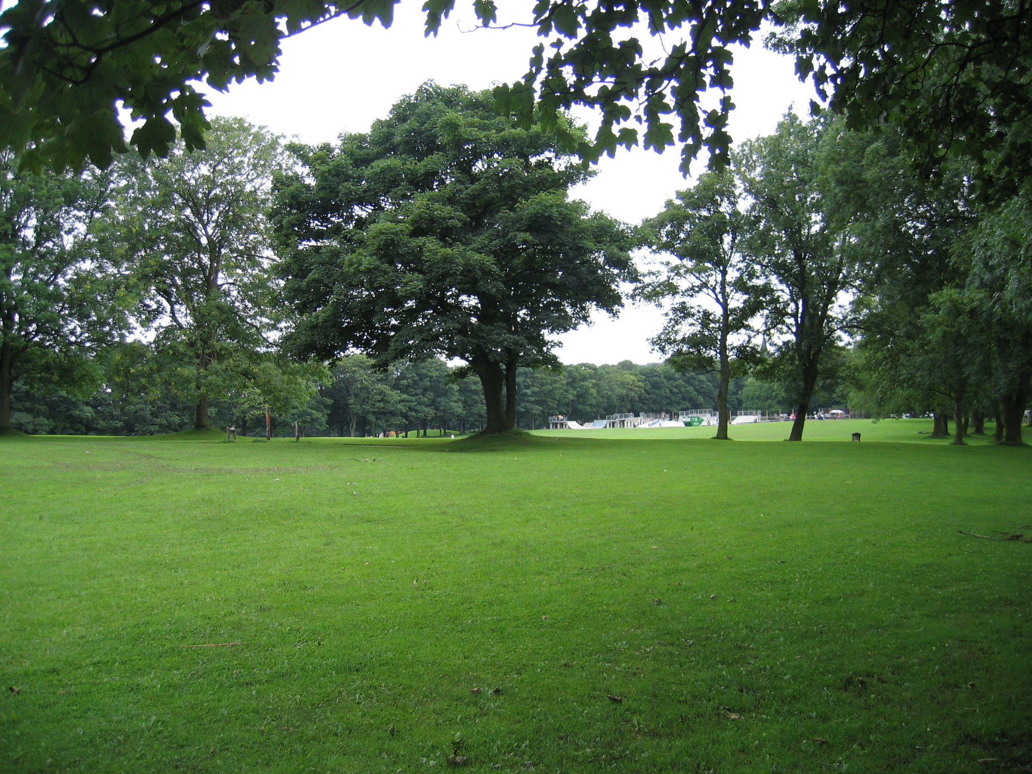 Woodhouse Moor Park, Leeds, West Yorkshire. Trees are Acer pseudoplatanus.